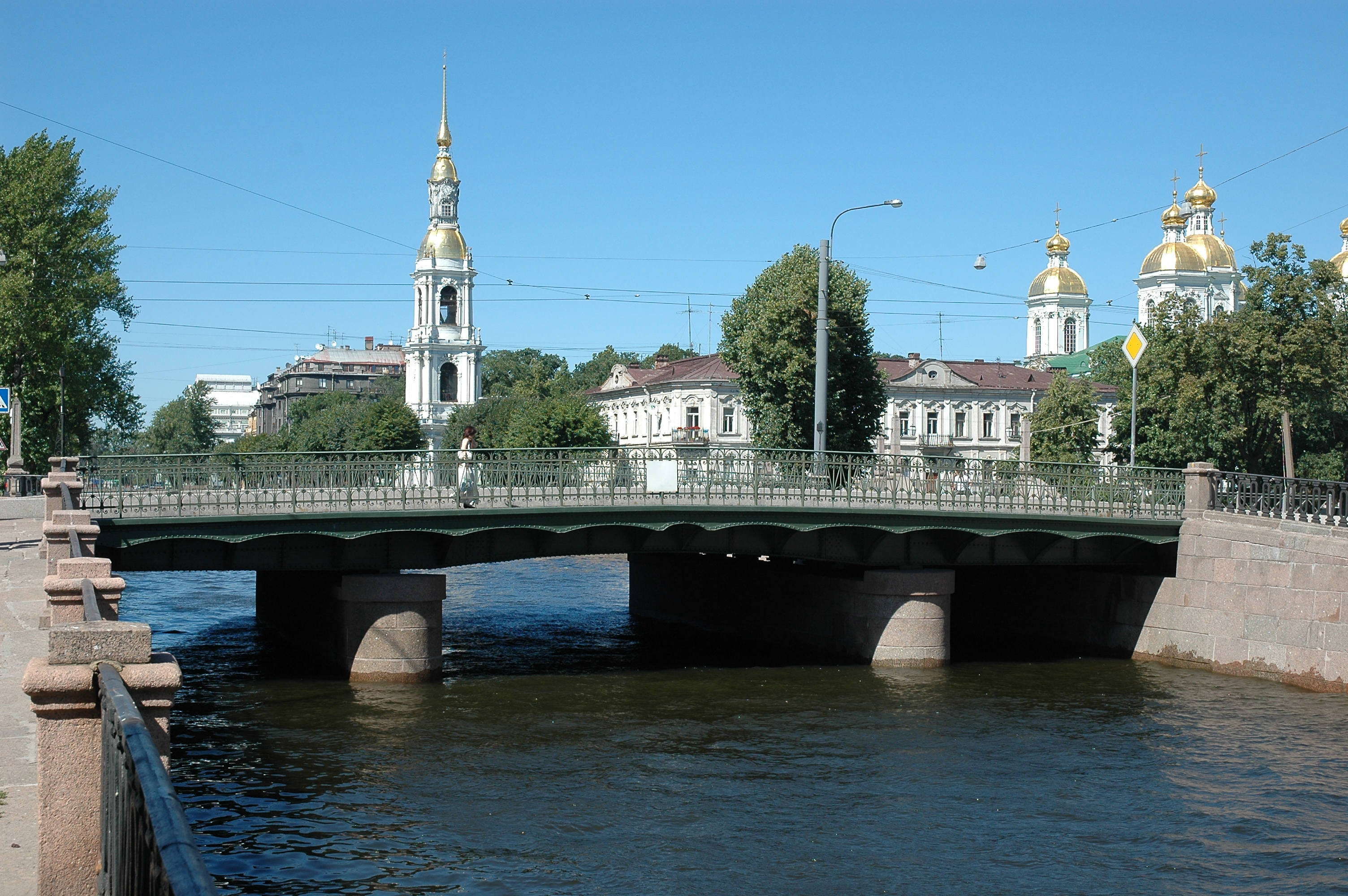 Staro-Nikolskii bridge across Kriukov canal (St Petersburg), downstream view